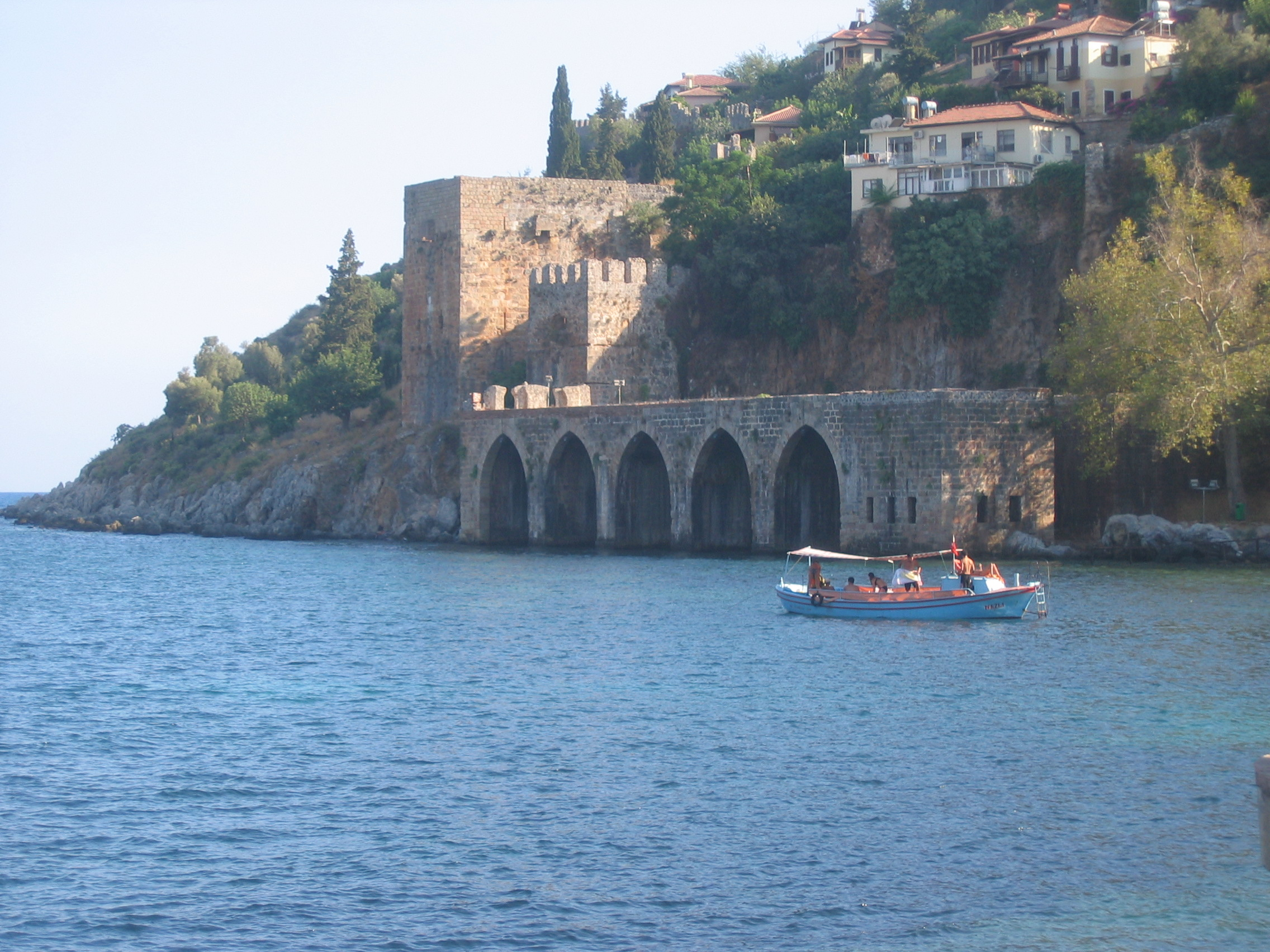 Shipyard next to the Alanya Castle.